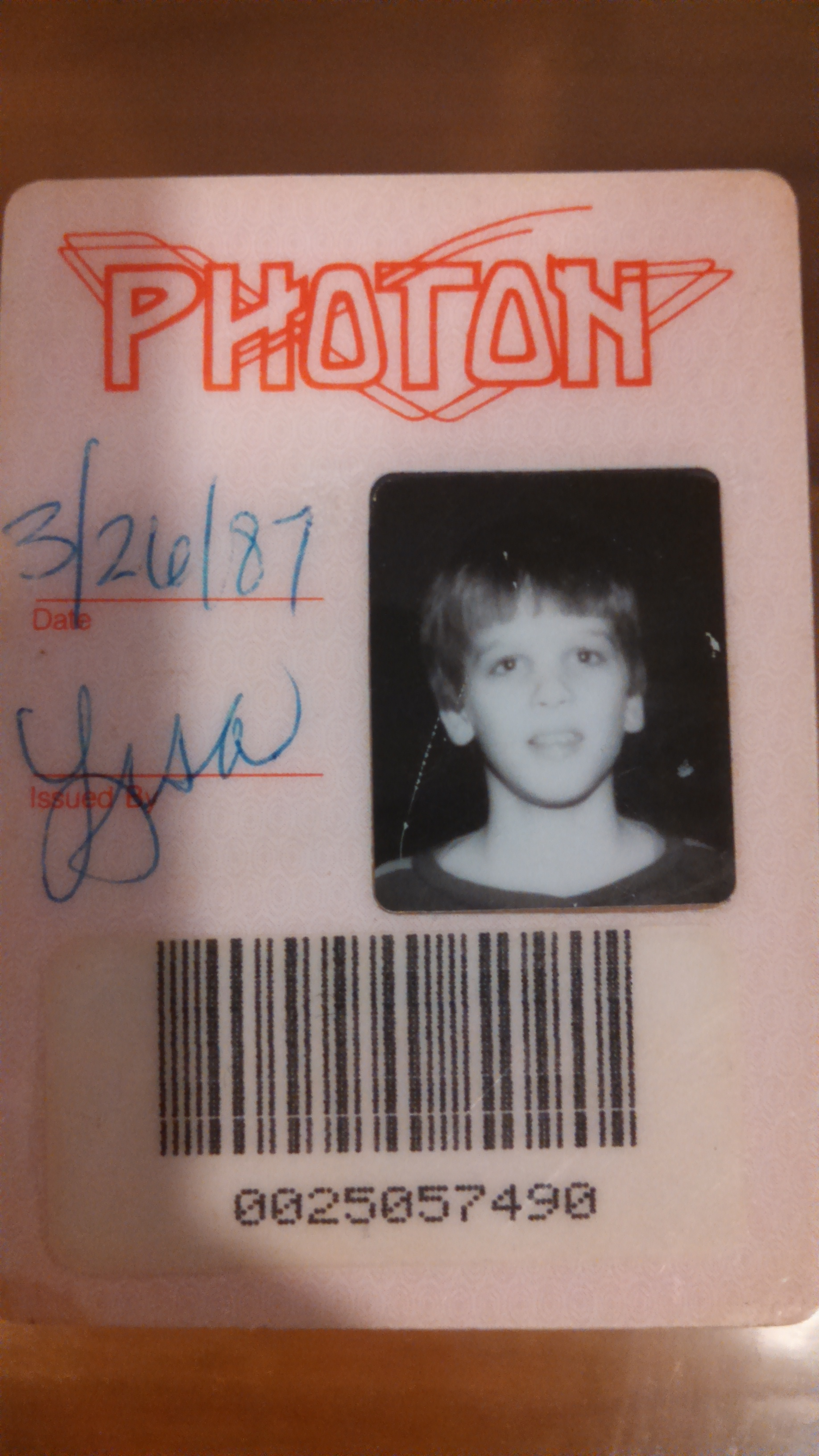 Photon center ID Badge from the Photon center formerly at Kenilworth, New Jersey.